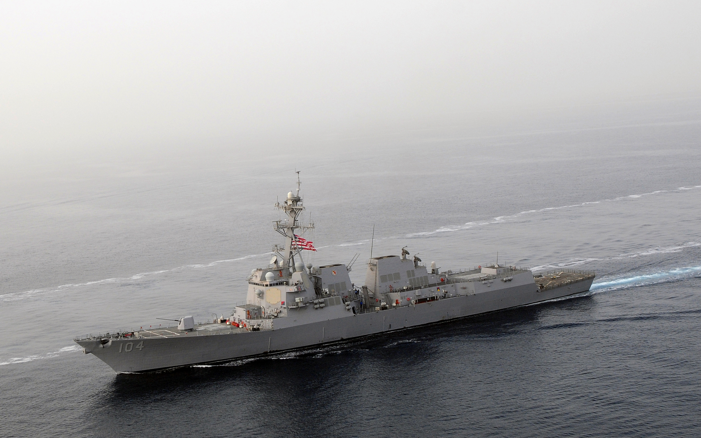 The Arleigh Burke-class guided-missile destroyer USS Sterett (DDG 104) transits the Arabian Sea. Sterett is deployed as part of the Abraham Lincoln Carrier Strike Group to the U.S. 5th Fleet area of responsibility conducting maritime security operations, theater security cooperation efforts and support missions as part of Operation Enduring Freedom.